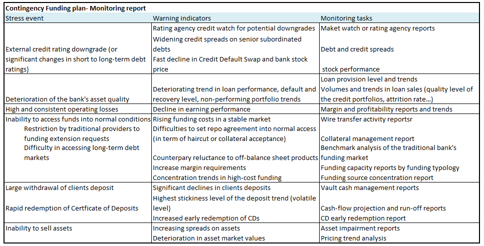 Provide a snapshot of significant and realistic stress events that may put the bank into funding shortage crisis situation